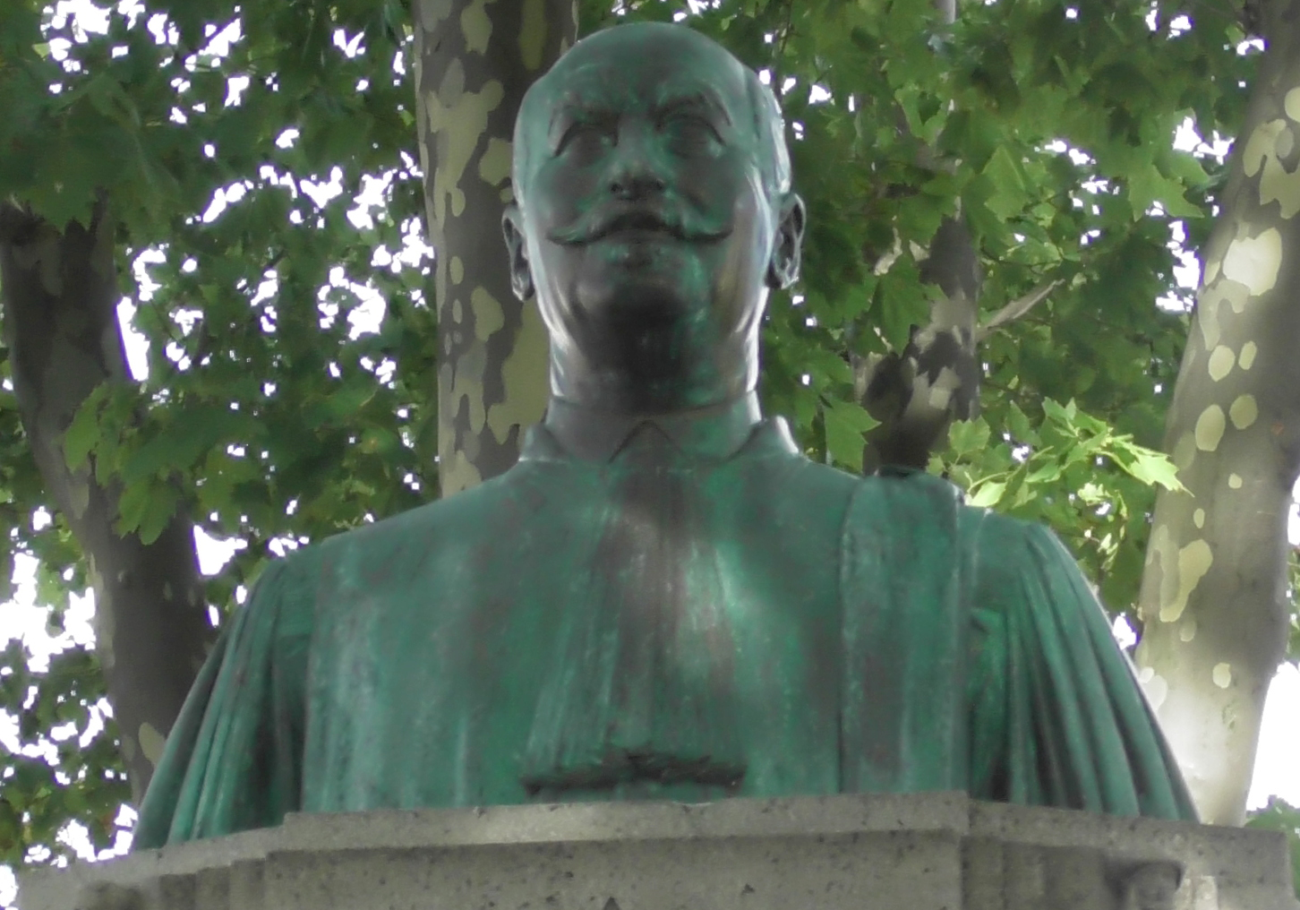 The sculpture made by Joachim Costa is a tribute to Joseph Anglade, a scholar who has worked a lot for the Occitan language